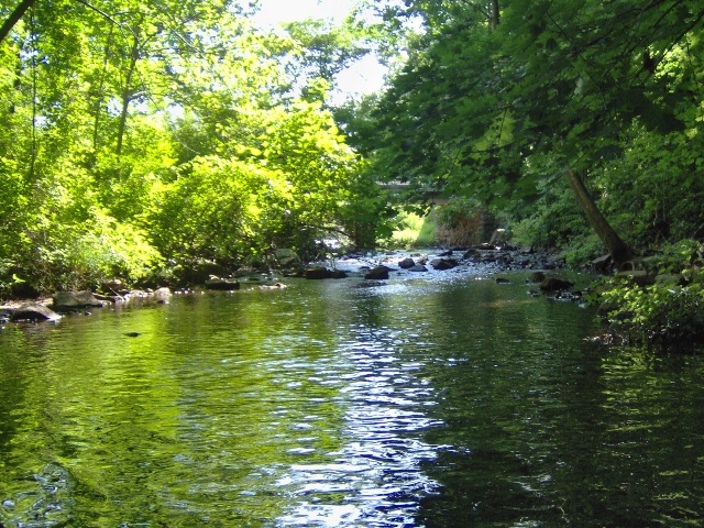 One of the few free-flowing (undammed) sections of the Lawrence Brook - South Brunswick.